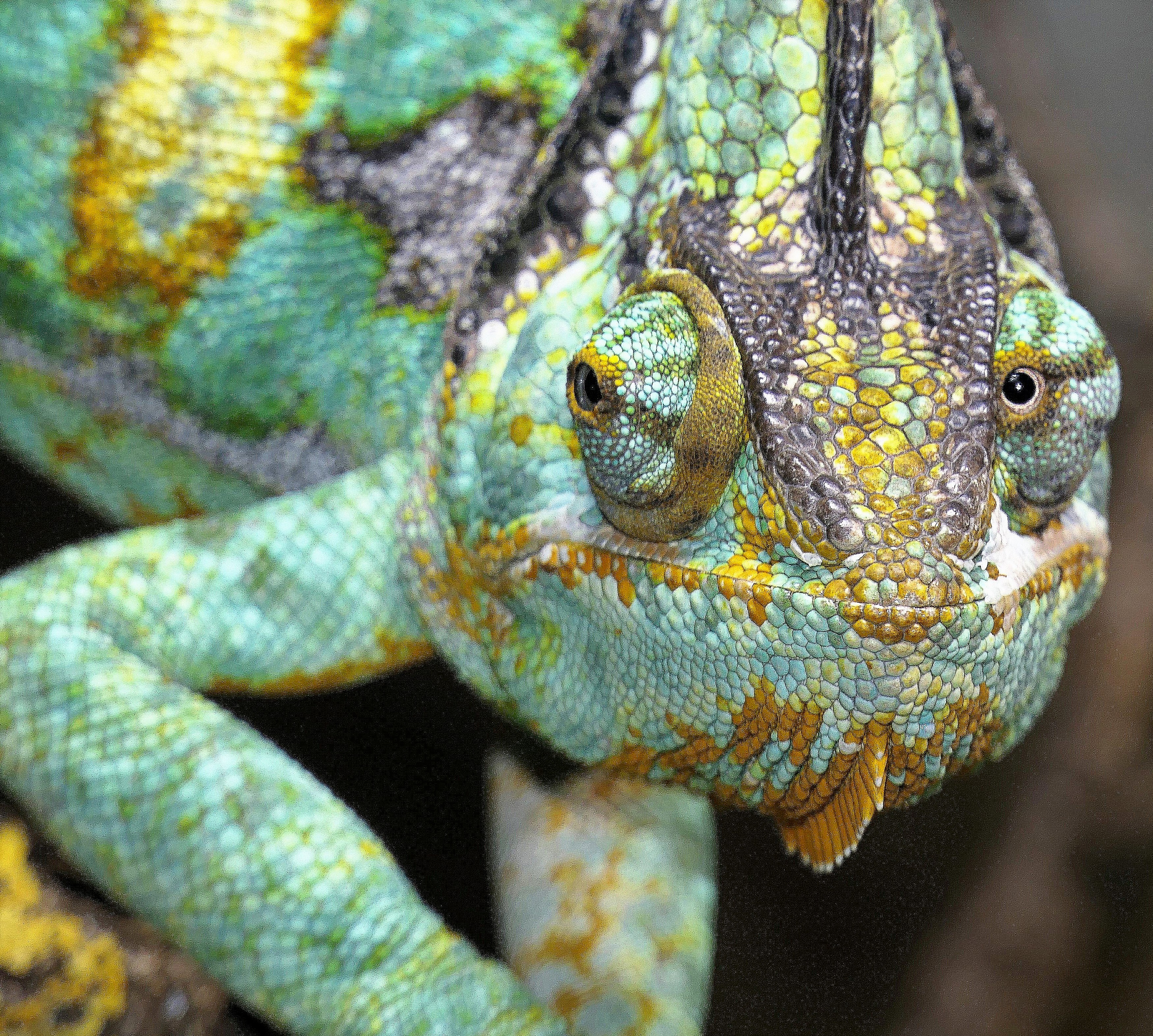 Madagaskar Chamäleon (male) I wonder what´s going on in a brain that´s always fed with two diffrent pictures at the same time.